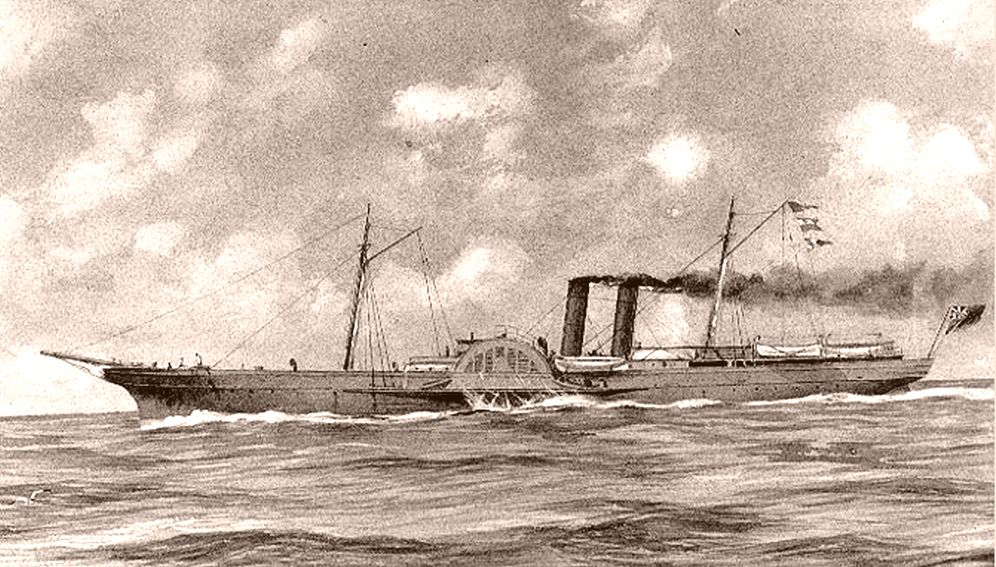 Sepia wash drawing of Blockade-runner, the ADVance, by R.G. Skerrett, 1899. Courtesy of the U.S. Navy Art Collection, Washington, DC